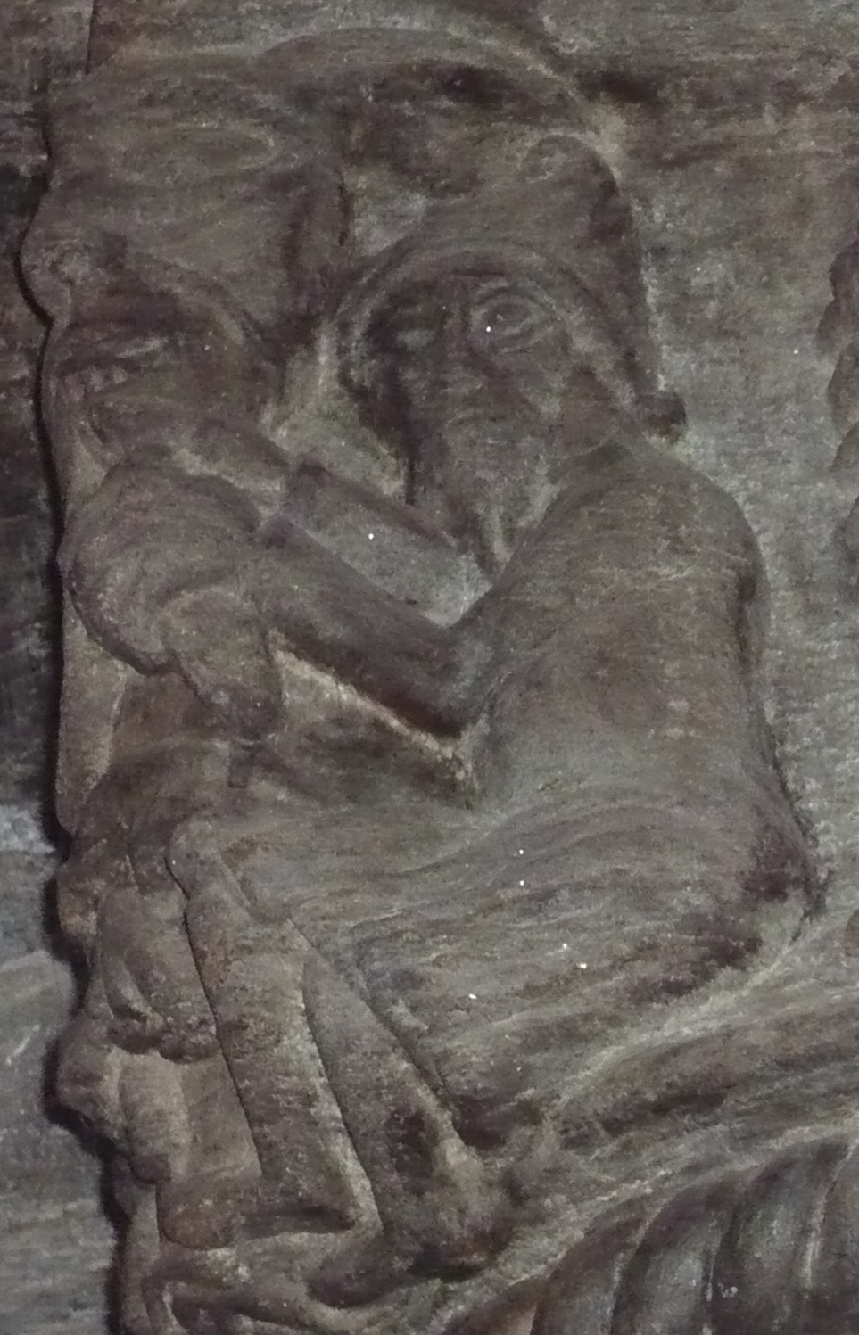 Ornaments from the Stavanger Cathedral